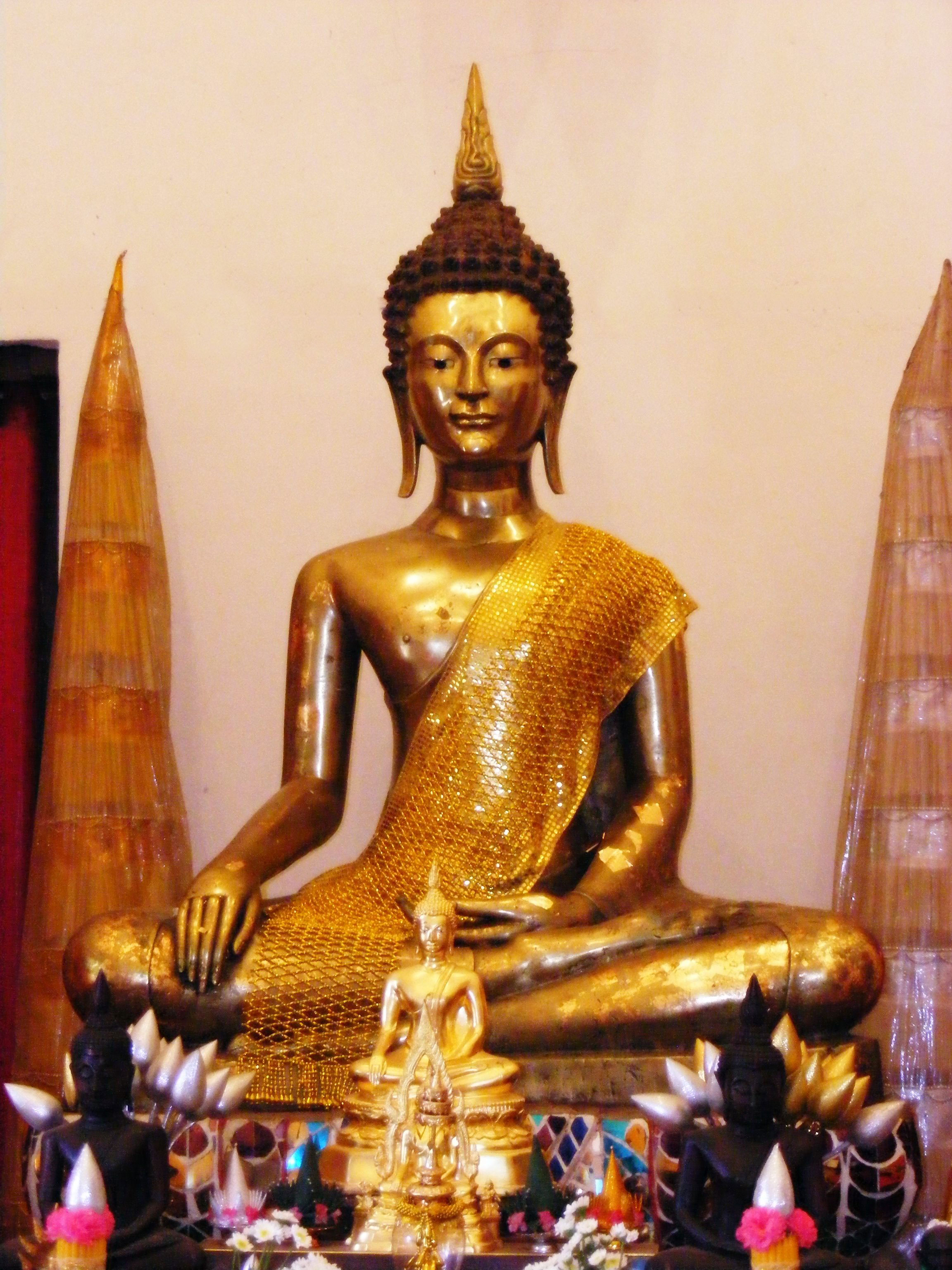 Phra Buddha Suwannaphetar Location: Wat Khung Taphao Ban Khung Taphao, Khung Taphao subdistrict, Mueang Uttaradit, Uttaradit Province, Thailand.